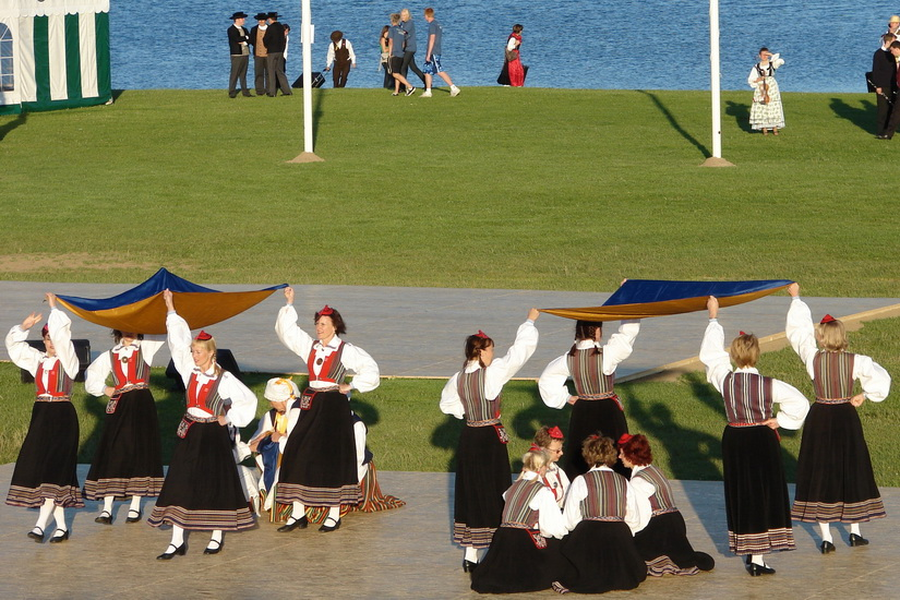 Folk dance group Kirilind from Estonia in Europeade 2007 in Horsens Denmark.